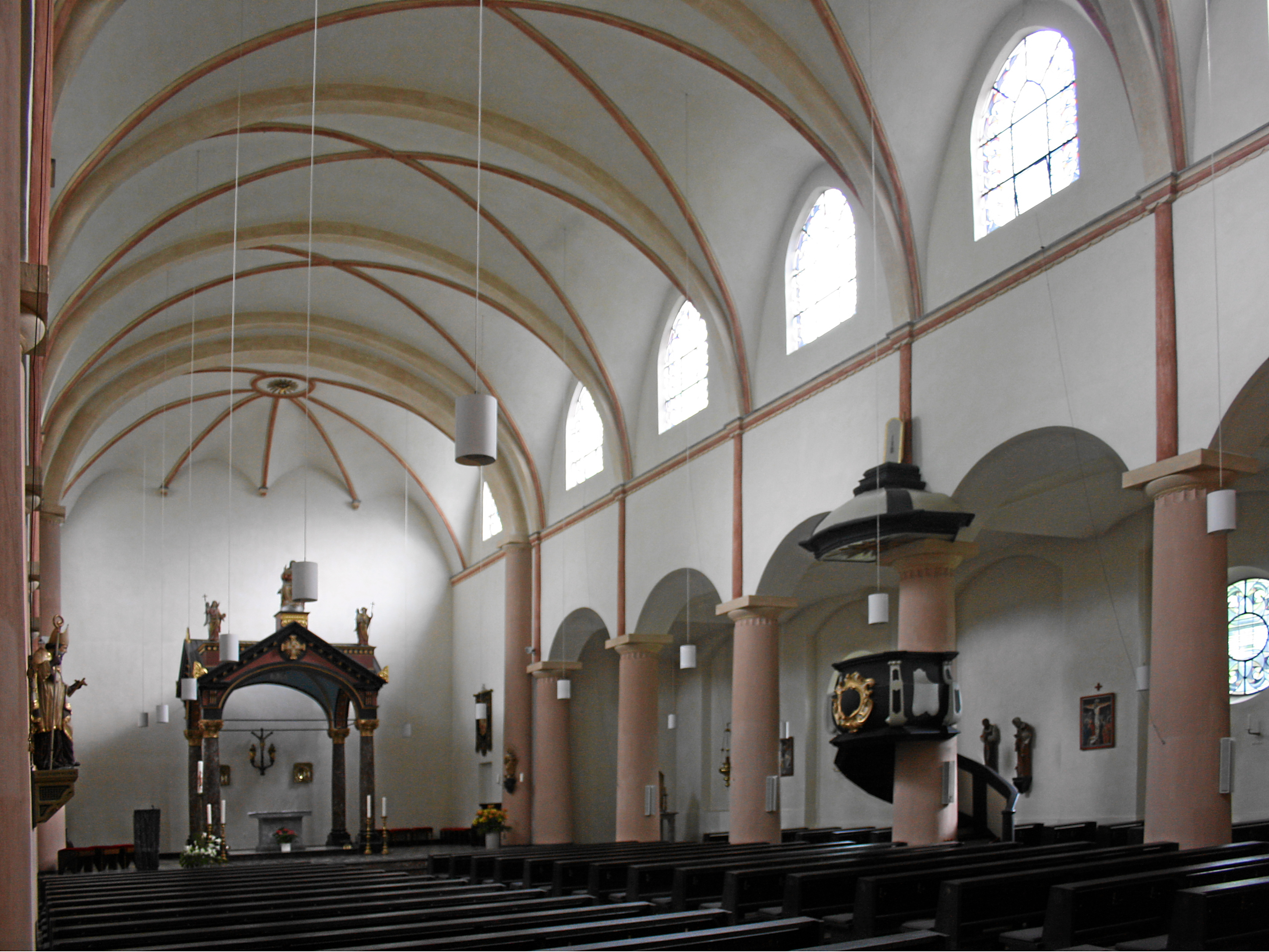 Köln-Sürth, Germany. Roman-catholic church Saint Remigius, interior towards East.